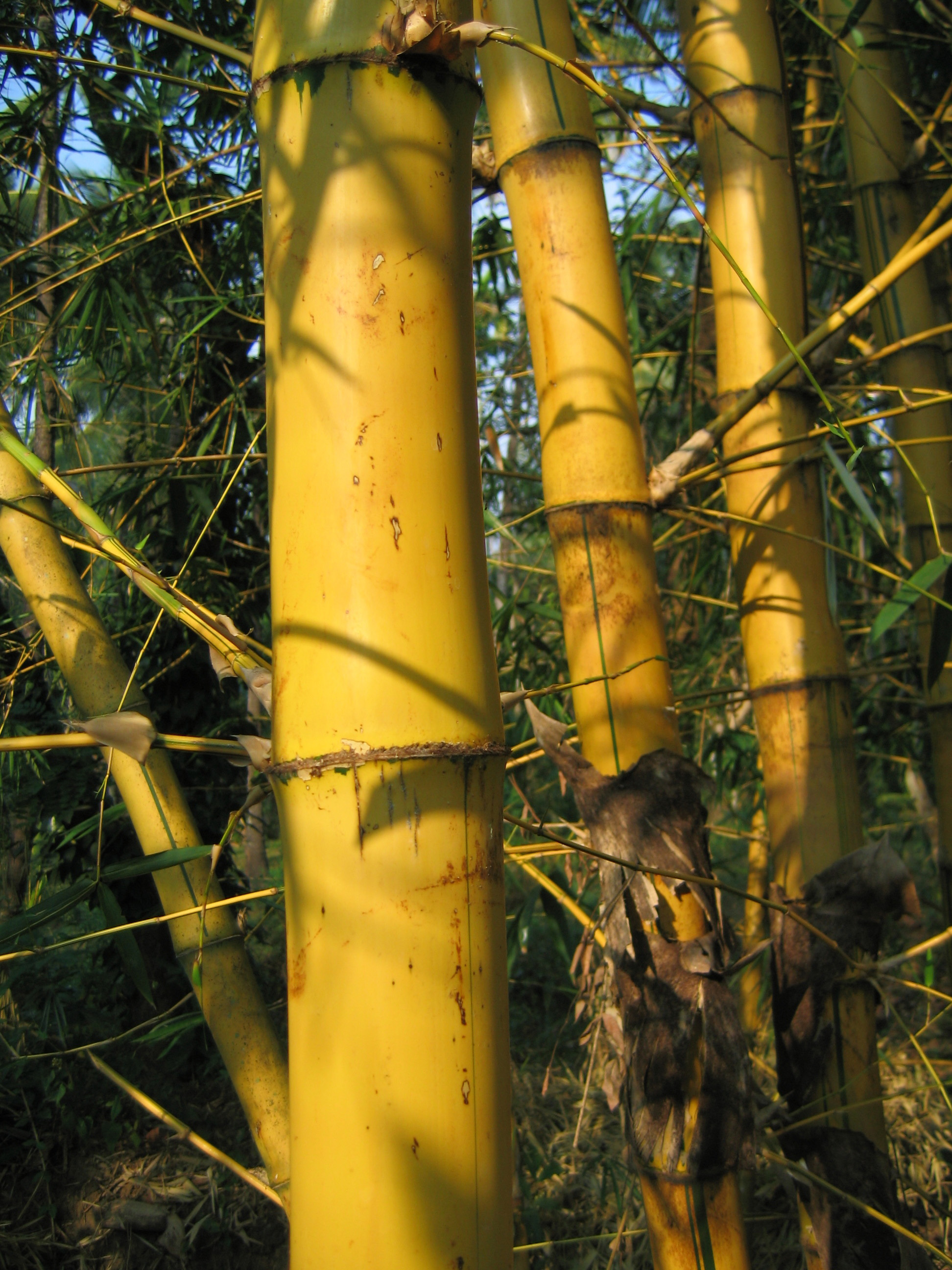 A kind of yellow bamoo